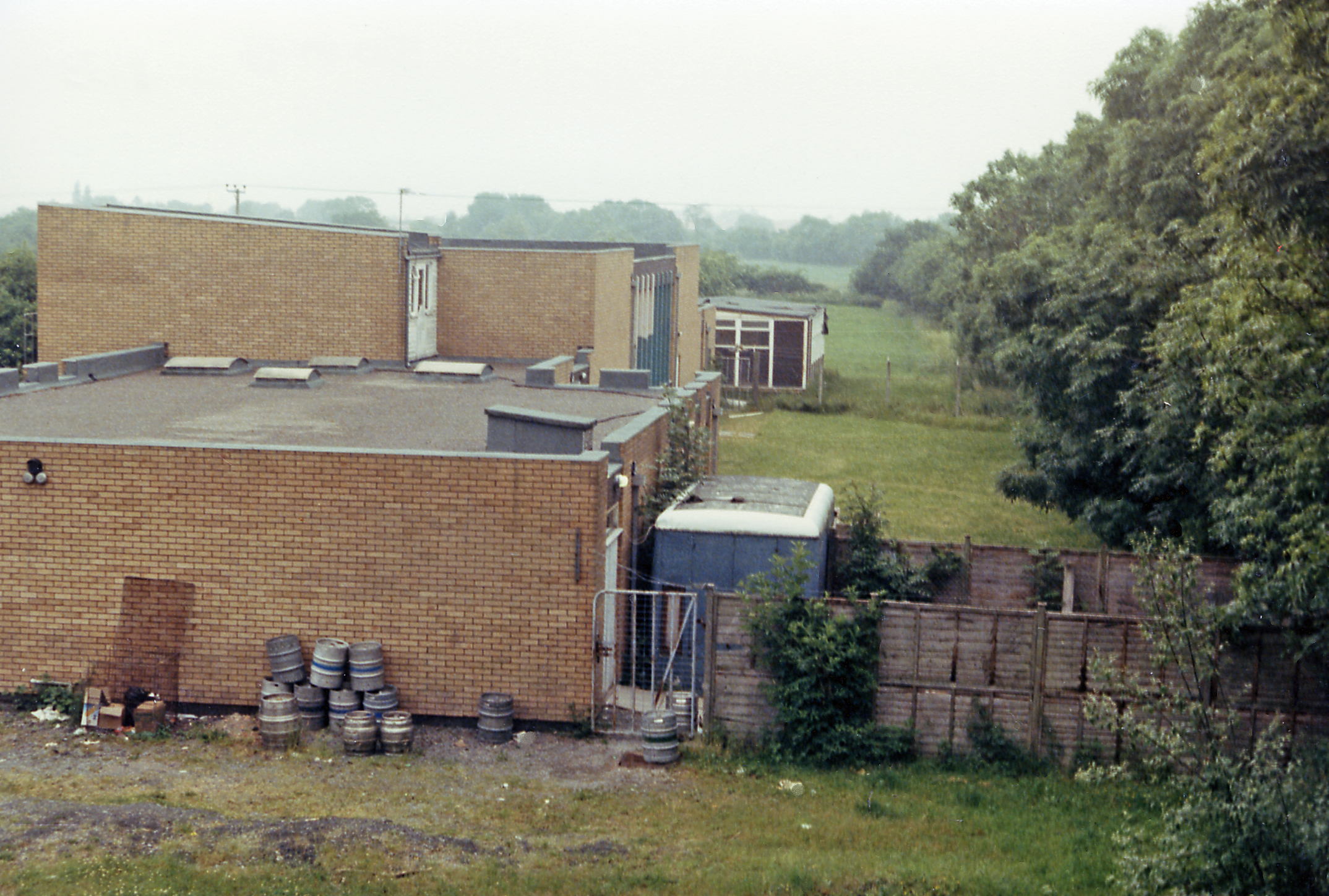 Site of Credenhill station, 1986, View eastward, towards Hereford: ex-Midland Hereford - Brecon line, closed entirely 31/12/62. The new buildings on the site may be connected with the RAF Camp at Credenhill.